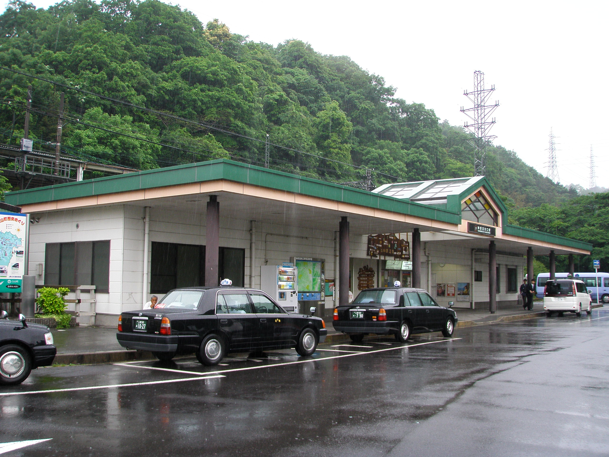 Kinki Nippon Railway Osaka Line Sakakibara-Onsenguchi Station Building